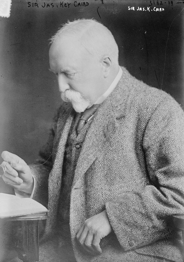 Bain News Service,, publisher. Sir Jas. Key Caird [between ca. 1910 and ca. 1915] 1 negative : glass ; 5 x 7 in. or smaller. Notes: Title from data provided by the Bain News Service on the negative. Photograph shows Sir James Key Caird, 1st Baronet (1837-1916), a Scottish textile manufacturer, philanthropist and mathematician. (Source: Flickr Commons project, 2011) Forms part of: George Grantham Bain Collection (Library of Congress). Format: Glass negatives. Repository: Library of Congress, Prints and Photographs Division, Washington, D.C. 20540 USA, General information about the Bain Collection is available at Higher resolution image is available (Persistent URL): Call Number: LC-B2- 3182-14